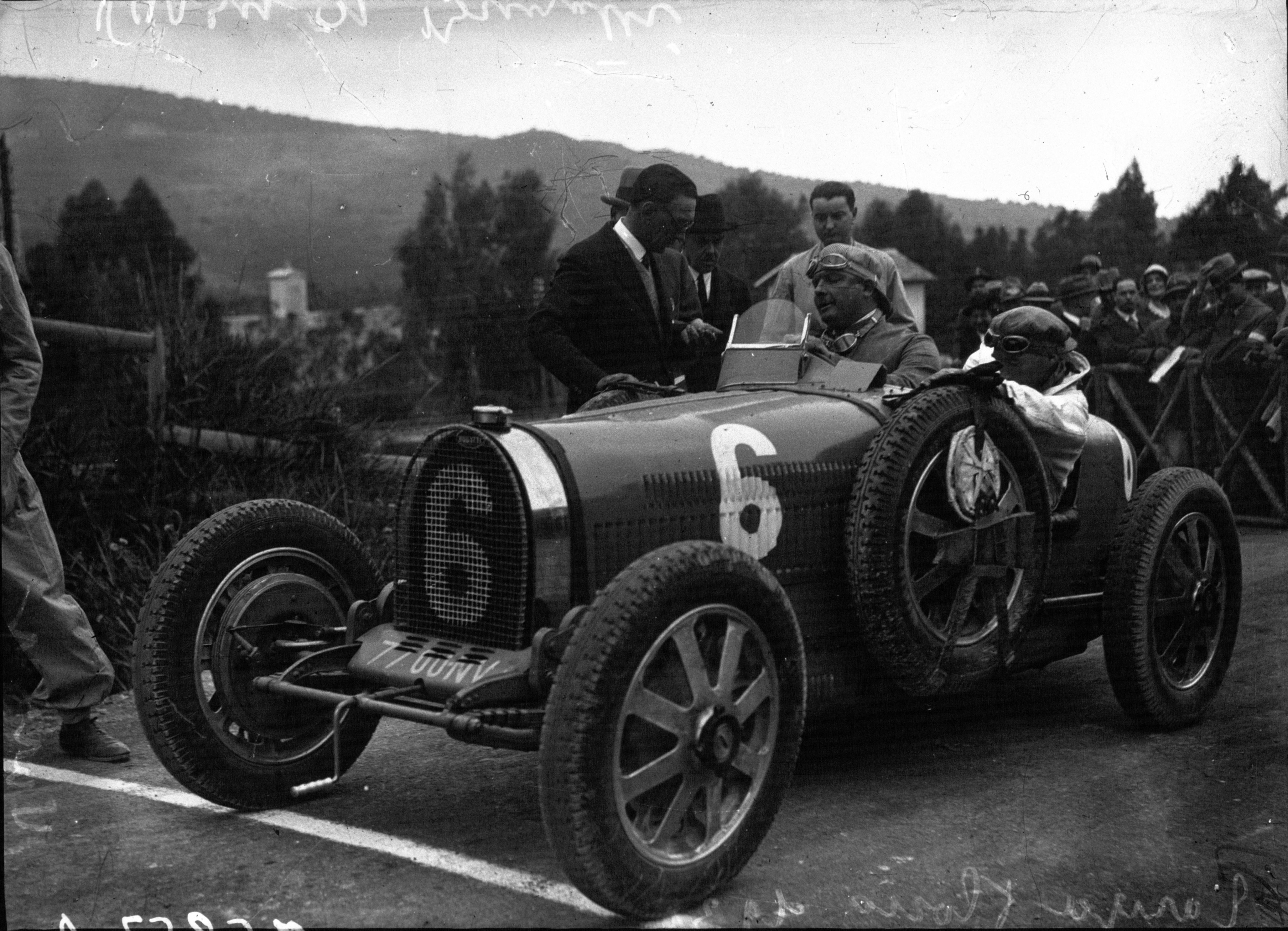 Entry #6 in the 1930 Targa Florio is Albert Divo in a Bugatti Type 35B.